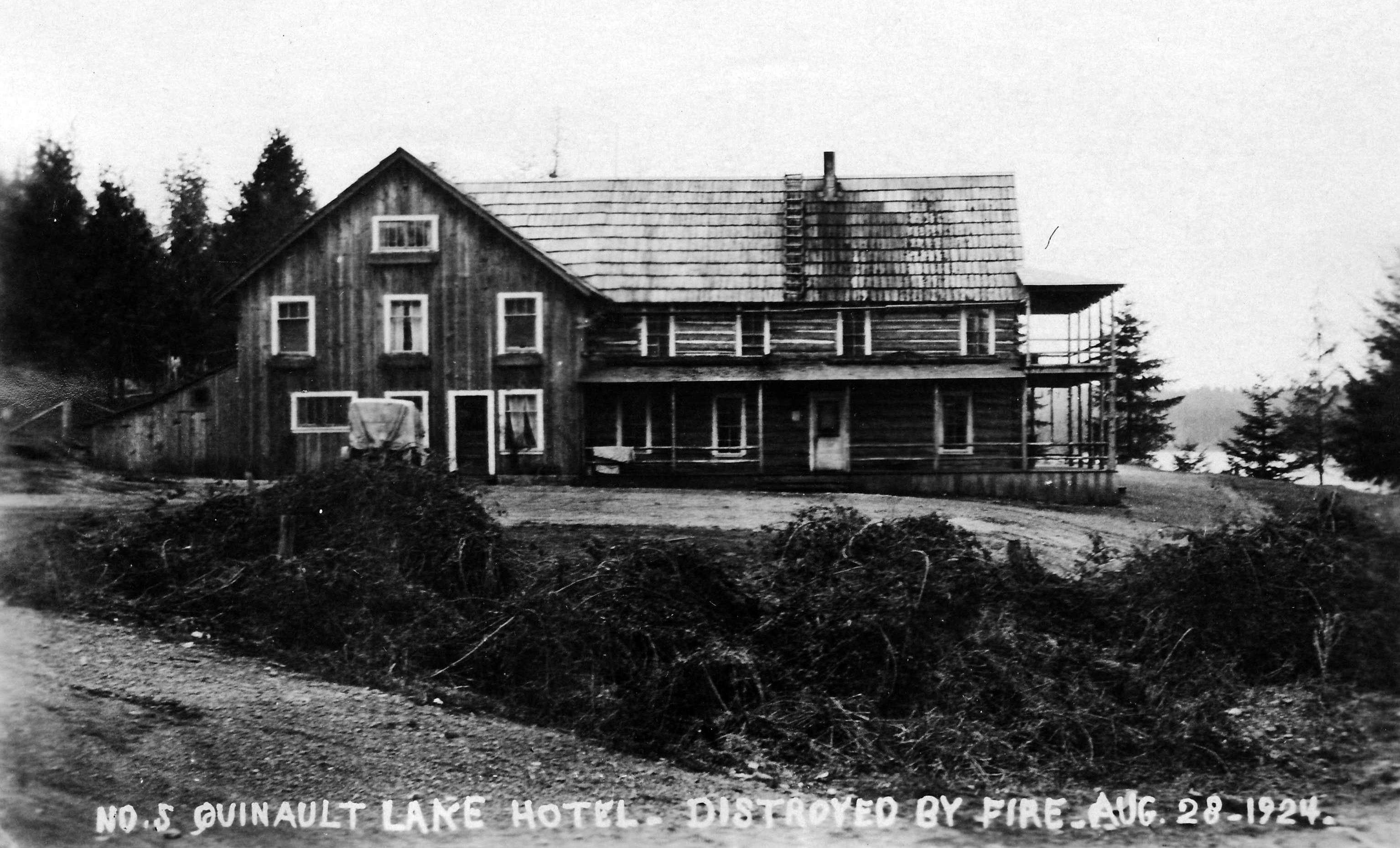 Olympic National Forest Historic Photo